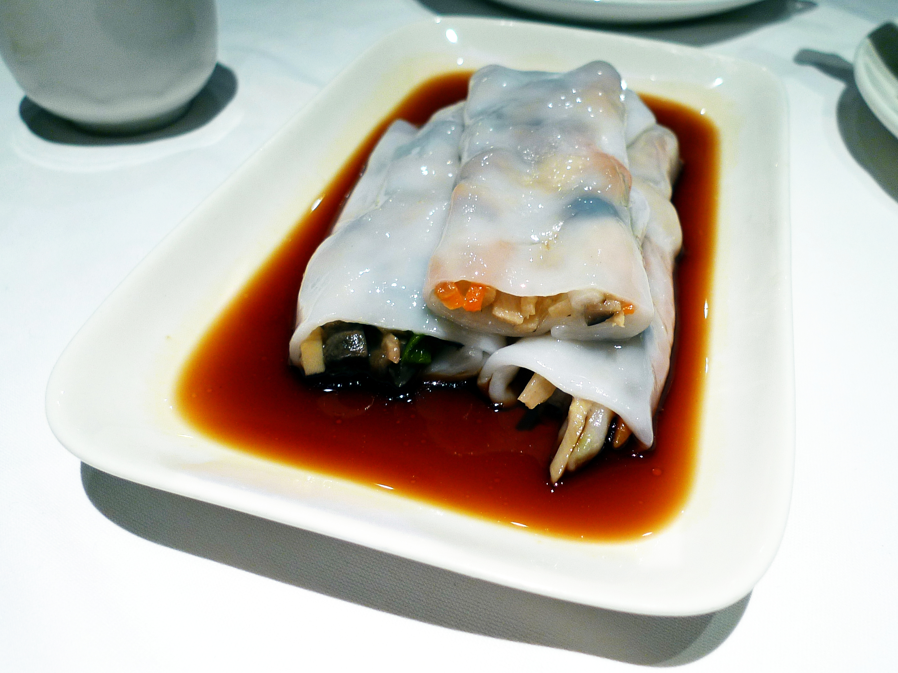 The monks vegetable cheung fun, a real highlight. I do love cheung fun, though. At Pearl Liang, Sheldon Square.